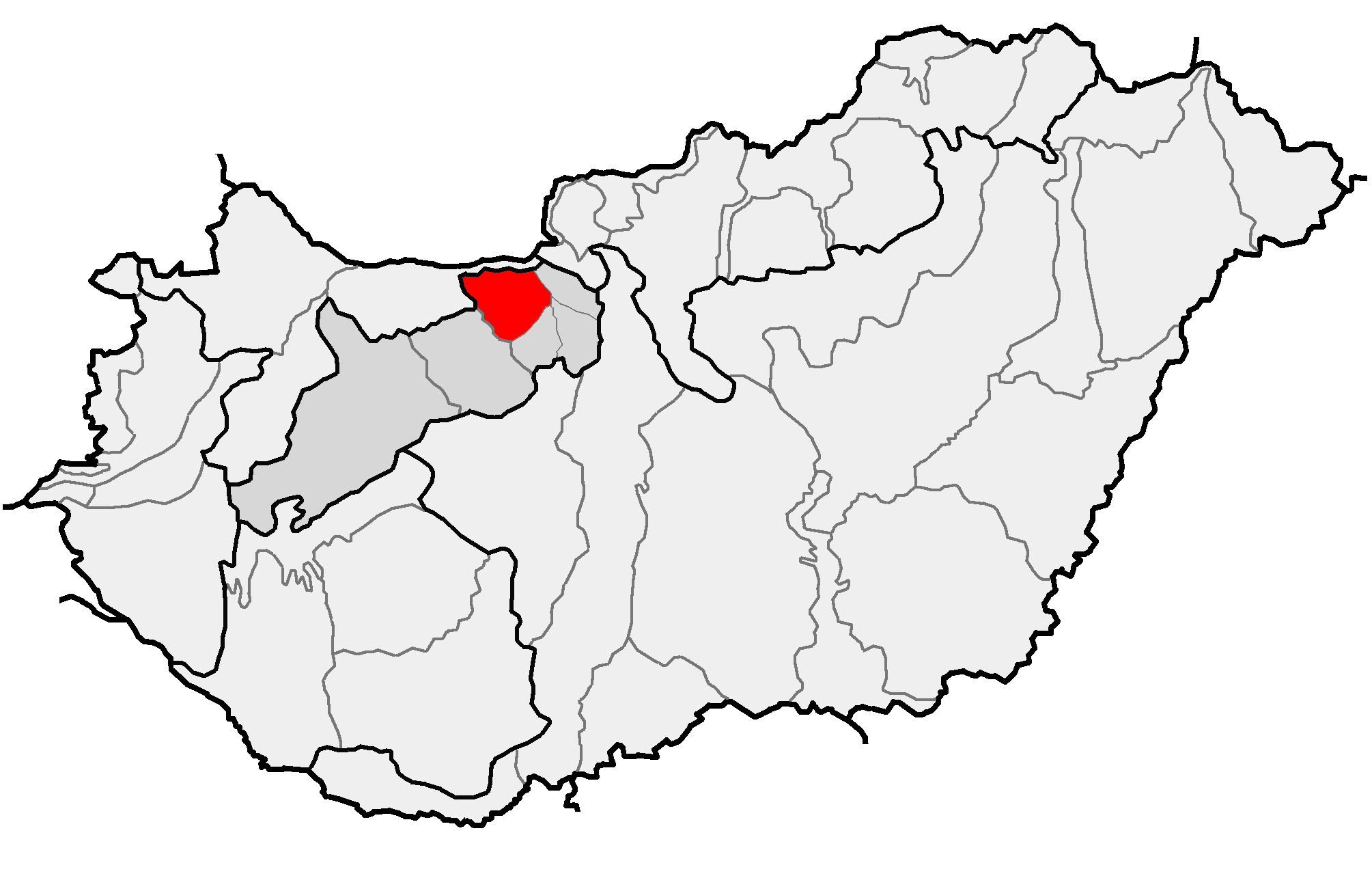 Location of geographical subregion of Gerecse-vidék (red) and macroregion of Dunántúli-középhegység (gray) within subdivisions of Hungary.